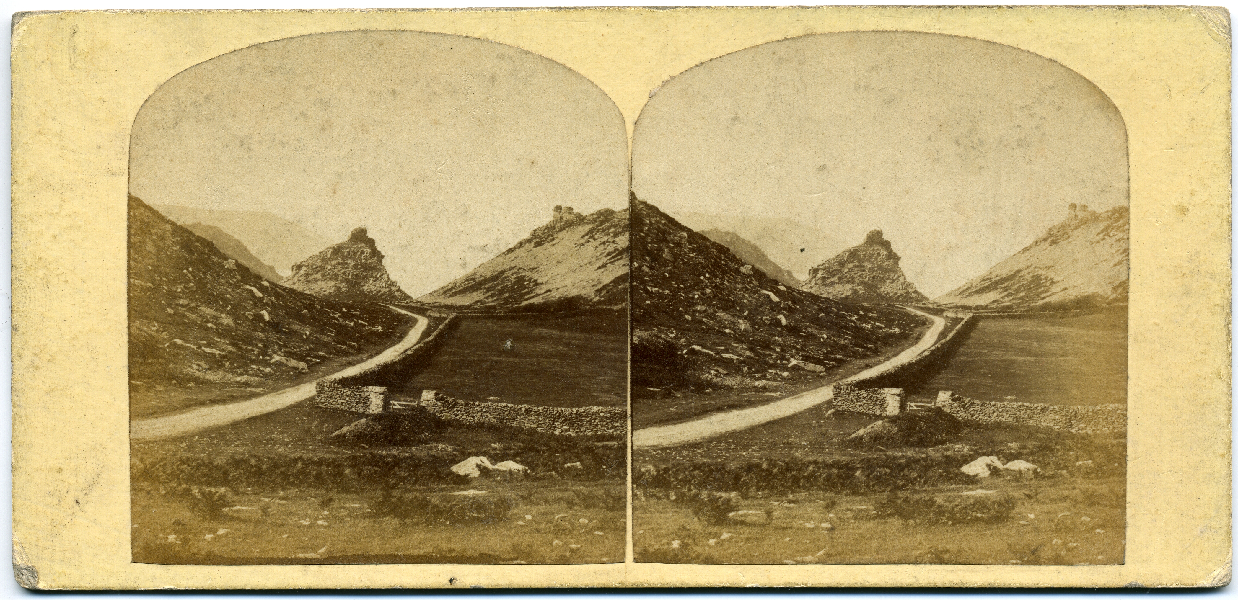 1860s stereoview picture which has the original label on the back: "The Valley of Rocks. Lynton N. Devon. Photographed and published by W. Palmer". This is near Lynton in Devon, England; a village in a gorge. The photographer ran the family firm William Eastman Palmer & Sons in the Plymouth area in the 1860s and 1870s.